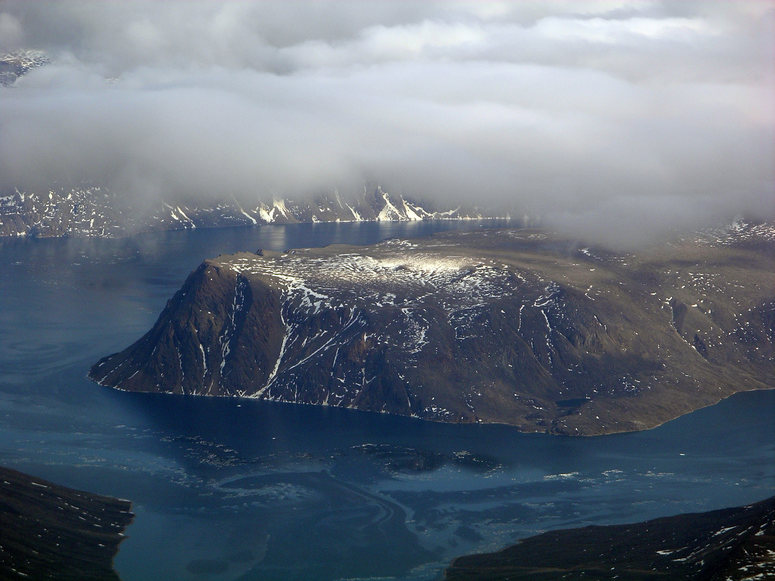 Some of the spectacular views around Qikiqtarjuaq